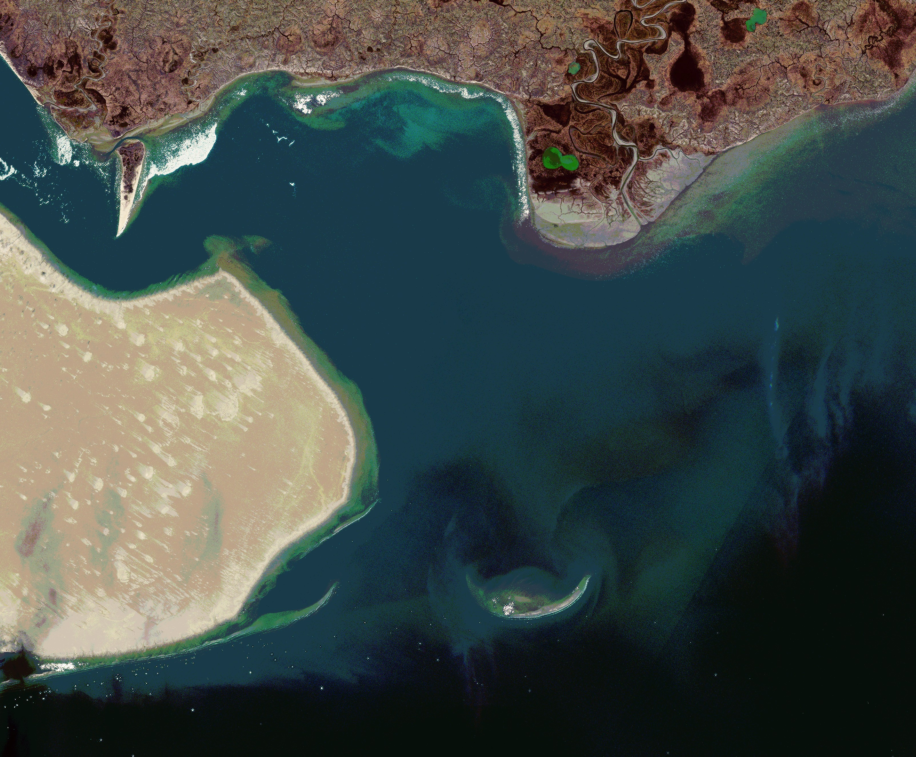 Neizvestnyye Islands (in lower part of the image), Bunge Land (yellow land mass in the left part of the image), Faddeyevsky Island (browny land mass in the upper part of the image), European Space Agency Sentinel-2 satellite image, pixel resolution 10 m, near natural colours